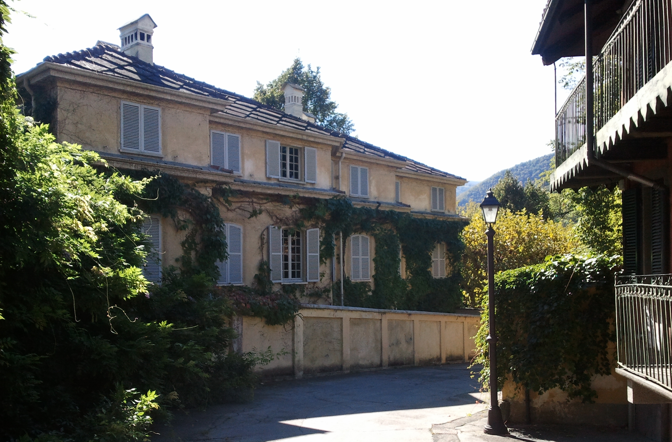 Castello. Villar Perosa